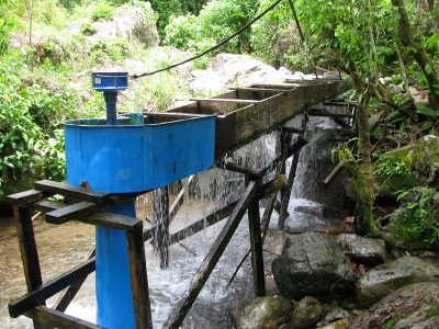 A very small hydropower device installed alongside a river